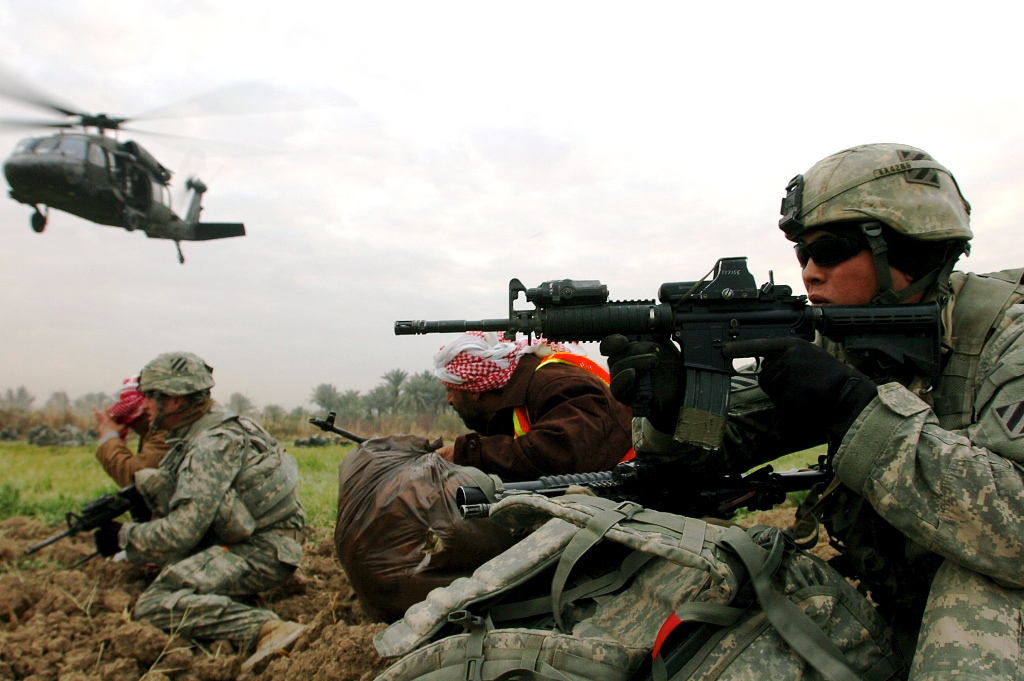 Shortly after air assaulting into a farm field, Pfc. Kenneth Armbrister, an infantryman with Company A, 1st Battalion, 30th Infantry Regiment, 2nd Brigade Combat Team, 3rd Infantry Division scans for enemy activity during Operation Browning in southern Arab Jabour